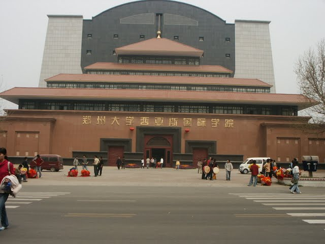 SIAs admin building.